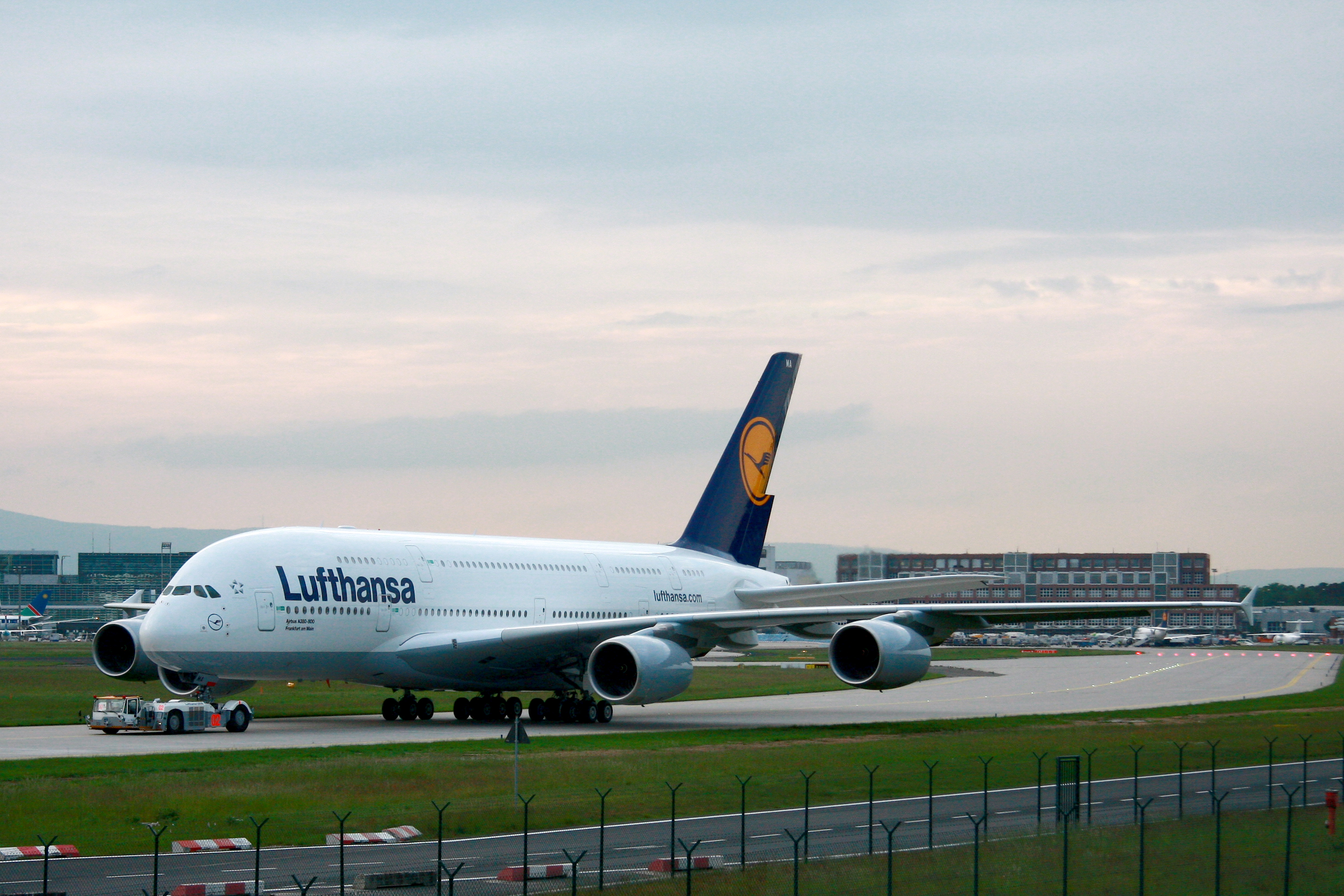 Lufthansa's first Airbus A380 at Frankfurt Airport